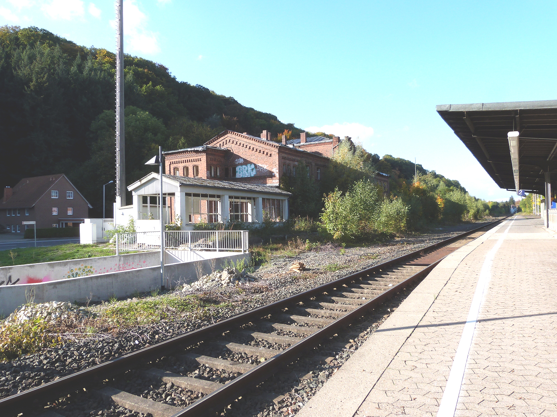 Location platform island, look in the direction of town Bad Oeynhausen (north), on the left in the foreground the beginning of the access without barriers, picture middle the old receipt building, on the left in the background the »Amtshausberg« in Vlotho